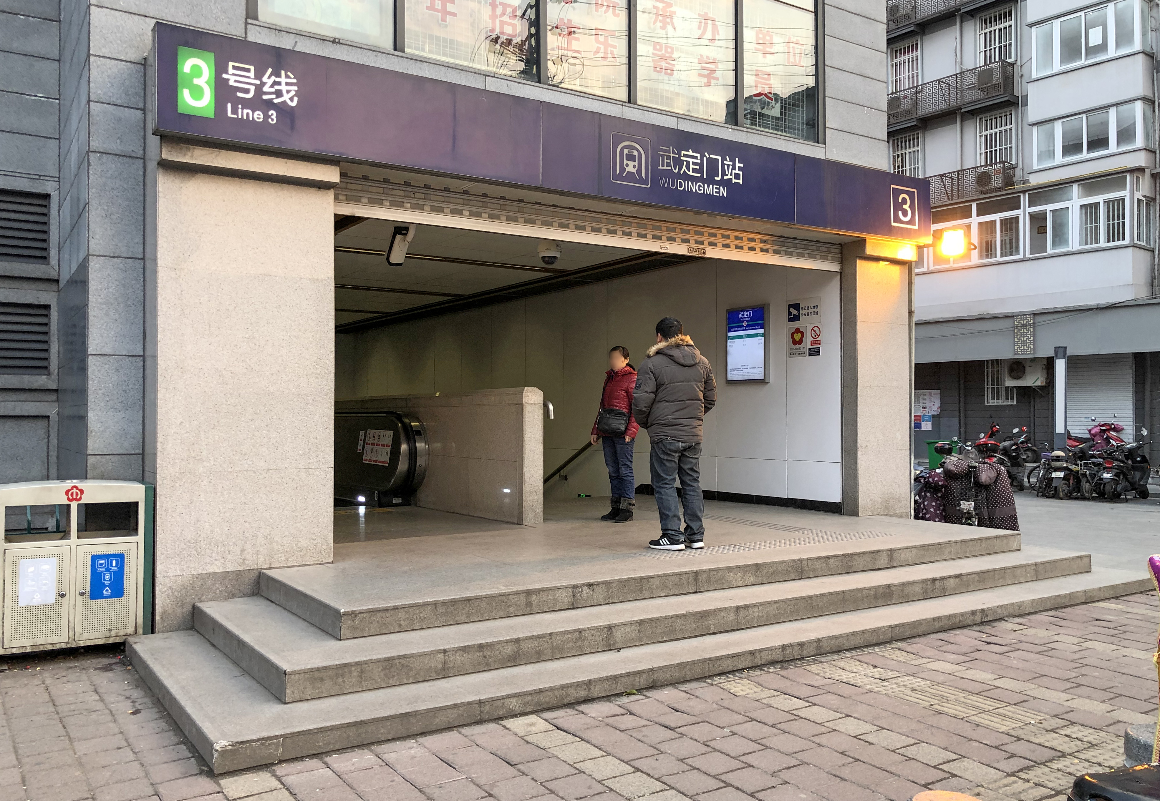 Pity that no metro near Zhongheqiao...